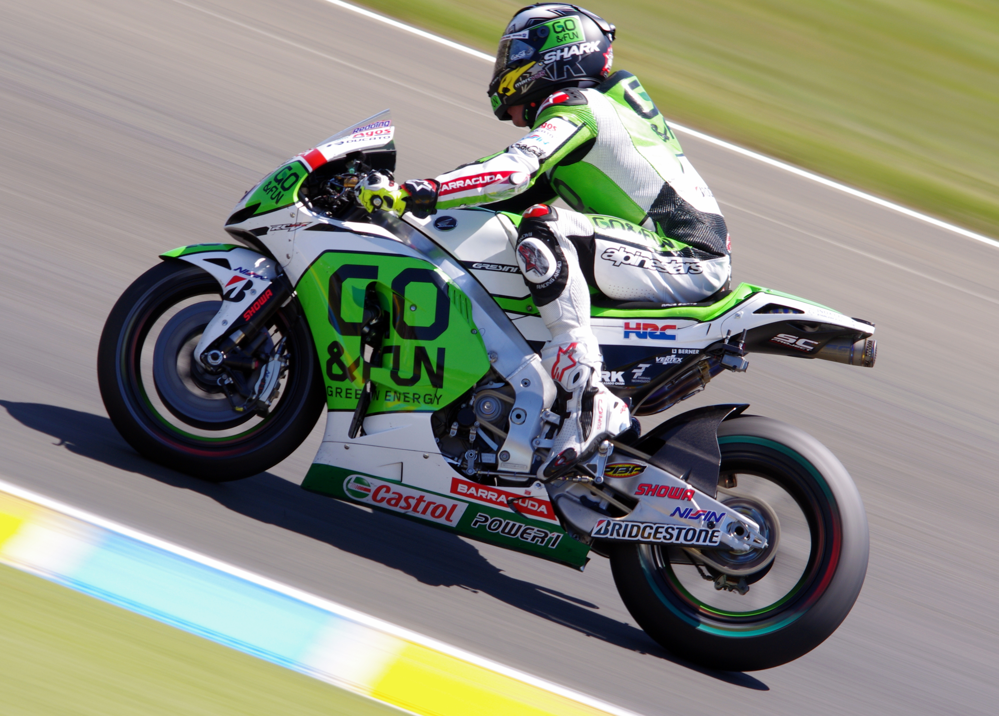 Scott REDDING - GO&FUN Honda Gresini - MotoGP 2014 - Le Mans 2014 french motorcycle Grand Prix at Le Mans Bugatti Circuit